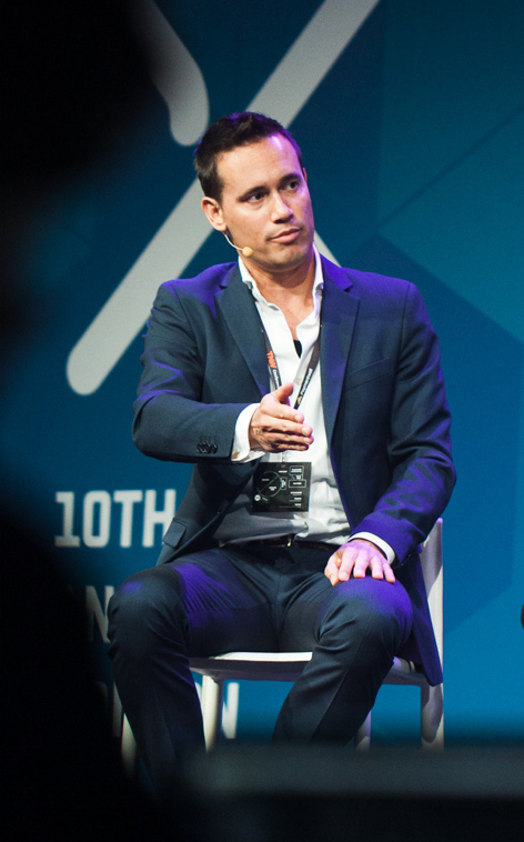 The Next Web Conference 2015